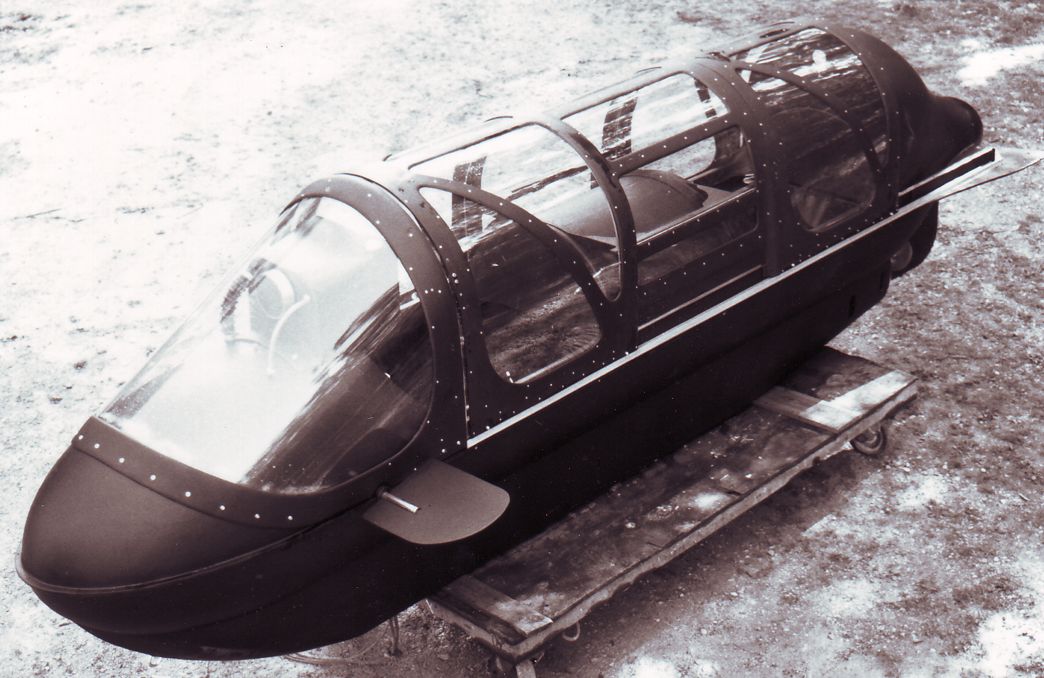 SDV Mark V OPS 1972 panel